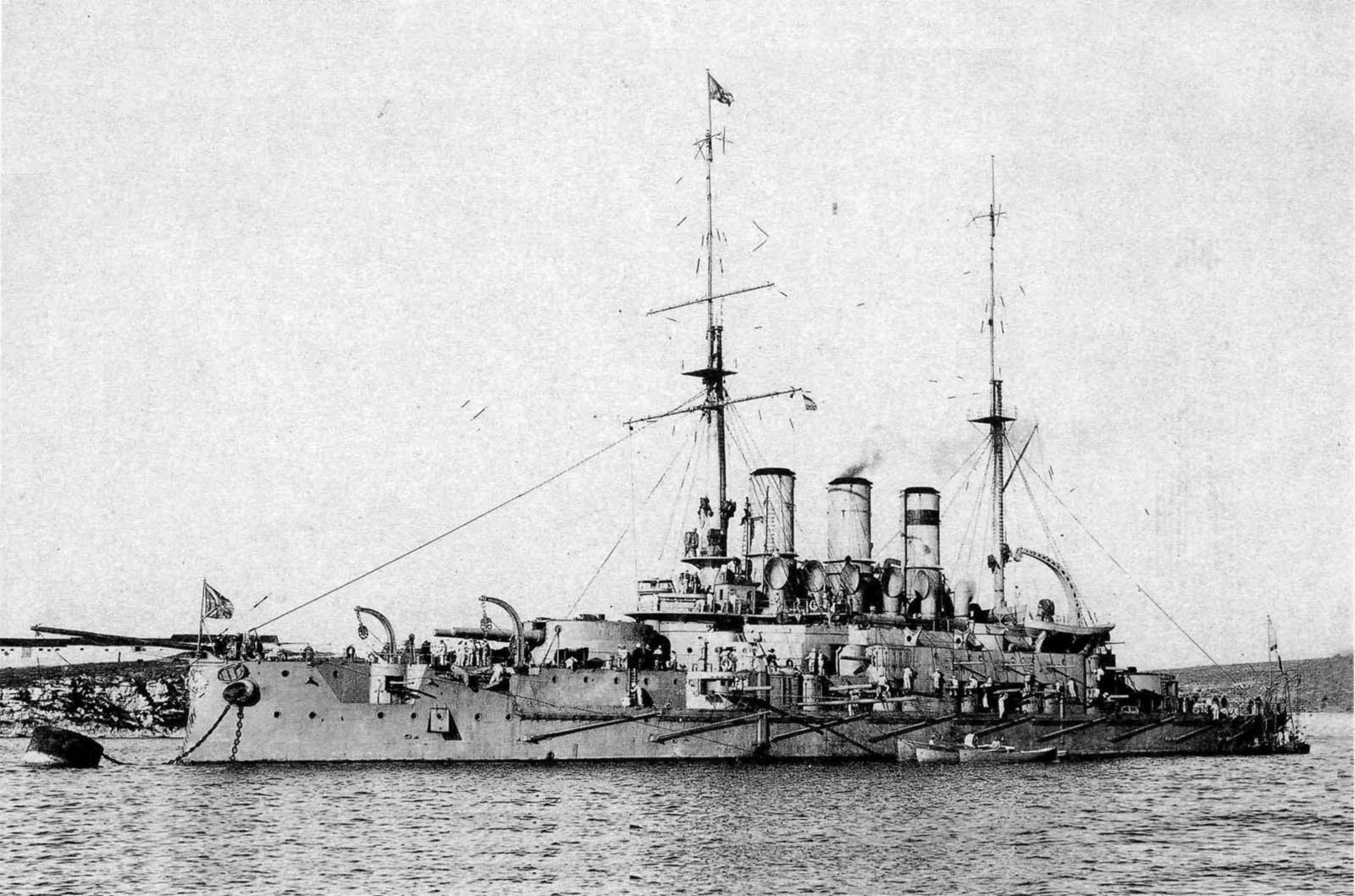 Imperial Russian battleship Panteleimon in Sevastopol, summer 1912.